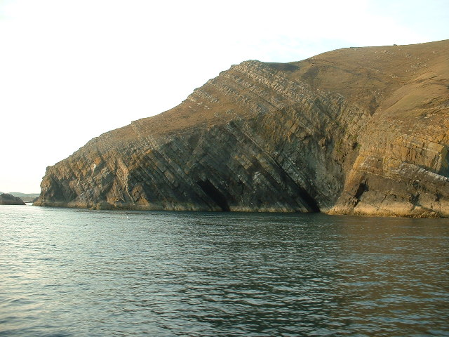 Trwyn y Fulfran, Lleyn. Beautifully coloured rock strata in this point on the headland enclosing Porth Neigwl - Hell's Mouth Bay